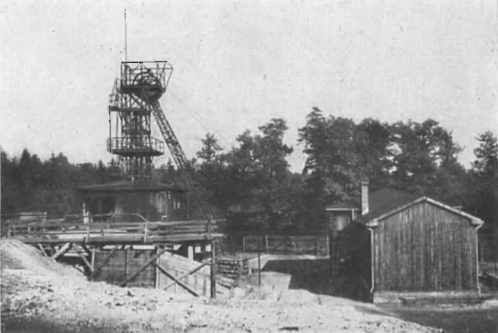 Zabudowania szybu Nimptsch kopalni Fryderyk w Bytomiu-Miechowicach („znajdował się na początku leśnego odcinka ulicy Stolarzowickiej” (źródło cytatu: zdjęcie ze strony 87).